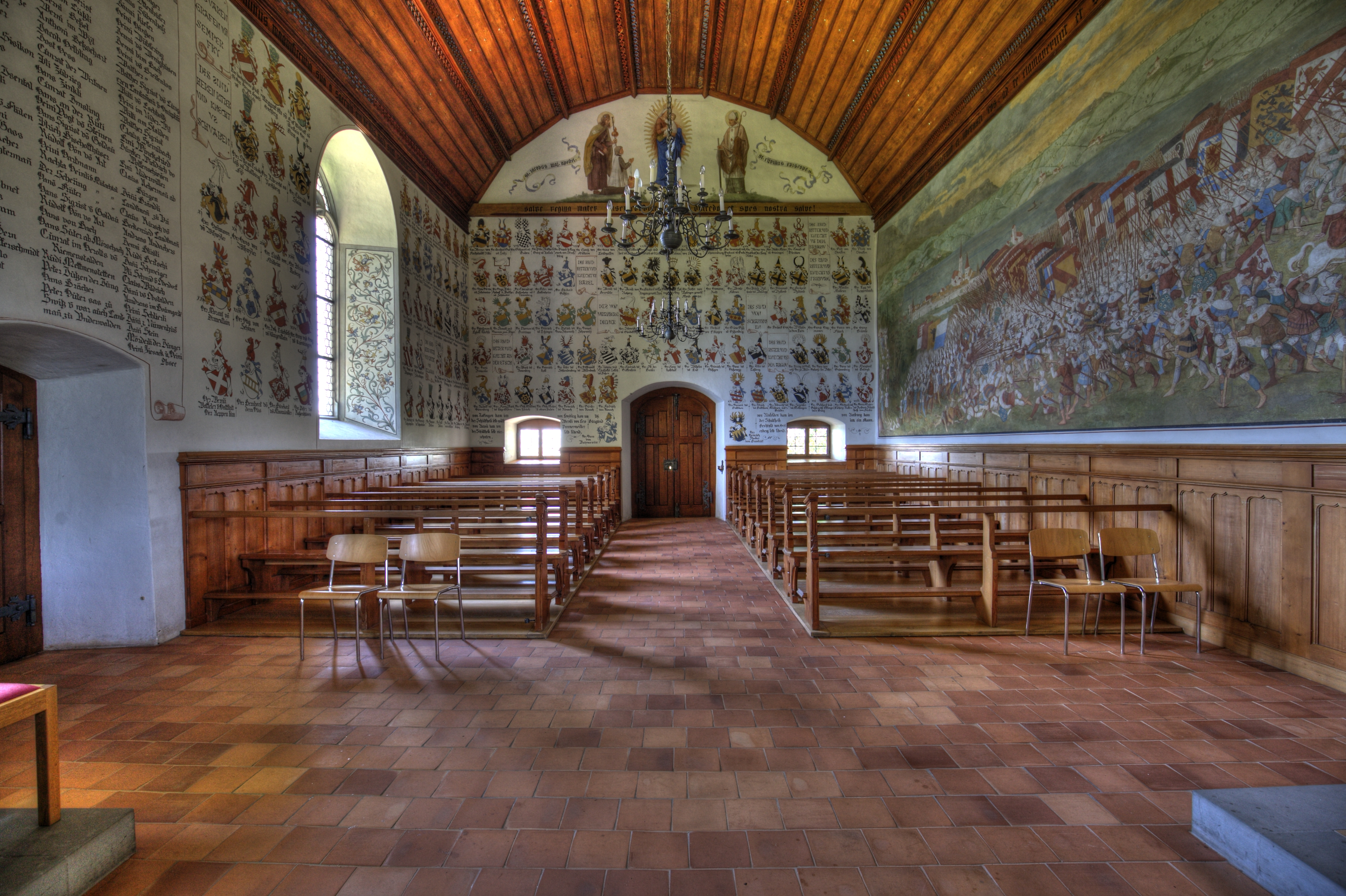 Interior of the battlefield chapel in Sempach showing the coats of arms of families who took part in the battle in 1386.